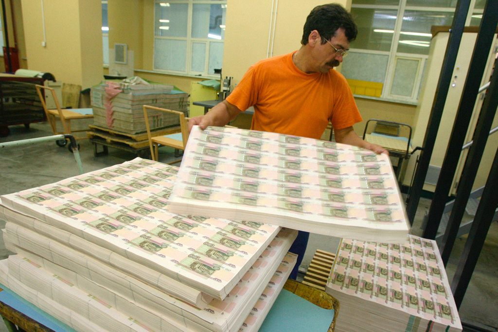 “Moscow's Goznak Printing Factory”. Sorting sheets of 100-ruble bills at Moscow's Goznak printing factory.